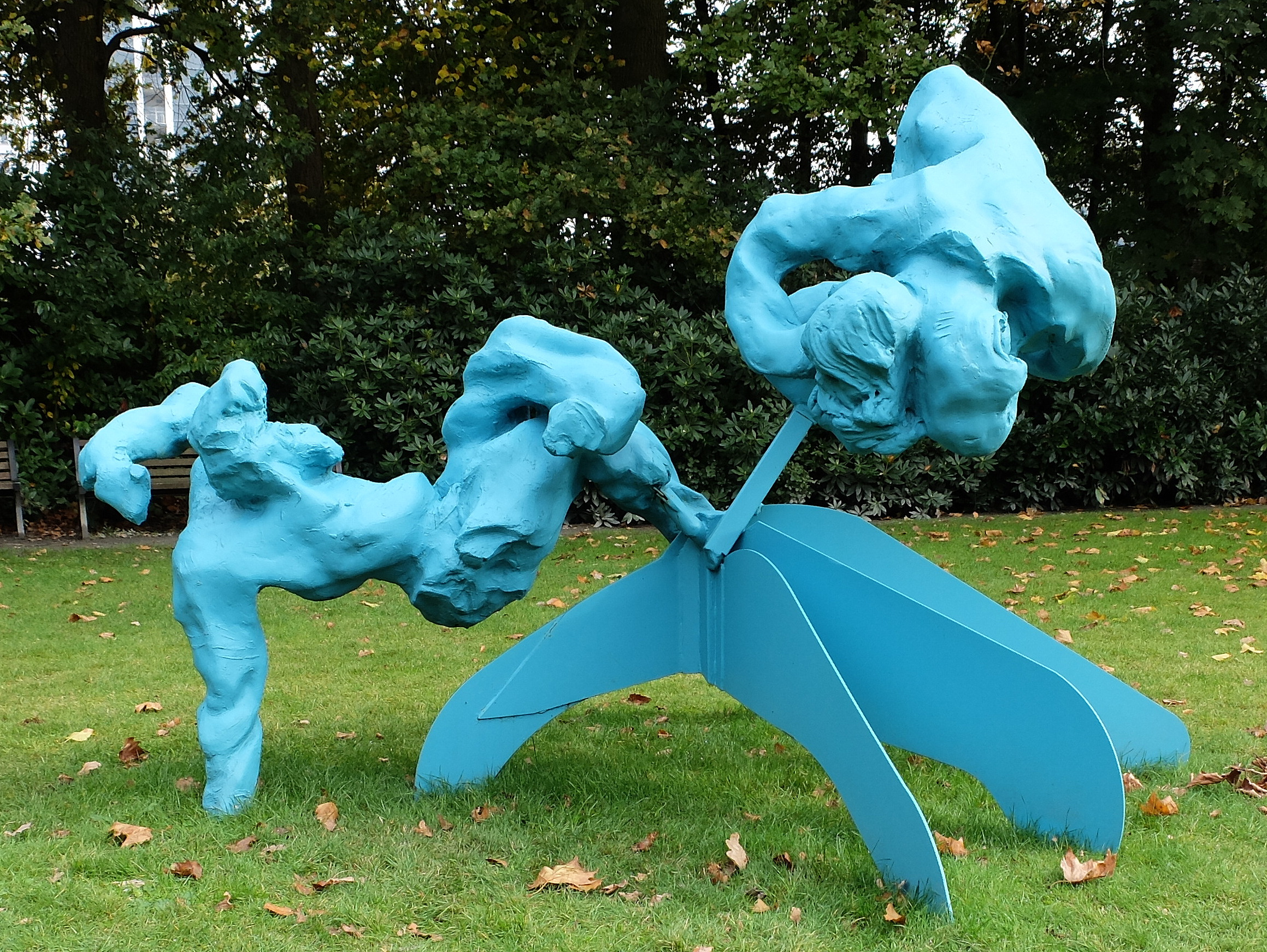 Peter Rogiers: Two reclining figures on a calder base 2006